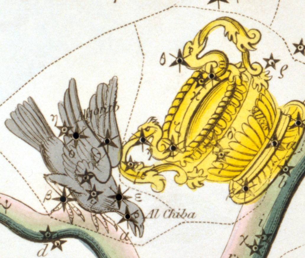 Constellations Corvus + Crater from Sidney Hall, Urania's Mirror, detail view Kiswahili: Kundinyota za Ghurabu (Corvus) na Batiya (Crater) kutoka ramani za nyota za Meingereza Sidney Hall, Urania's Mirror, kisehemu